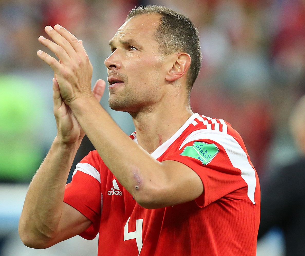 Sergei Ignashevich